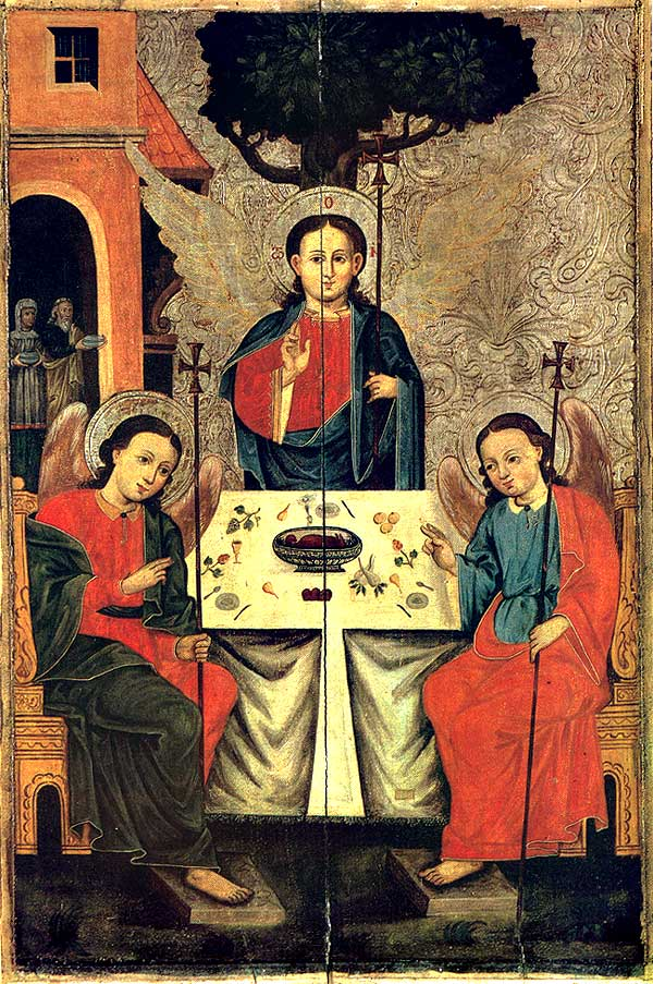 The Old Testament Trinity